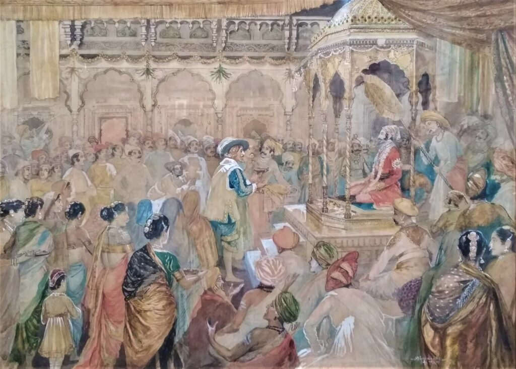 The ongoing exhibiton at the Museum 'M.V. Dhurandhar: The Artist as Chronicler' includes a series on Chhatrapati Shivaji Maharaj's life. These are illustrations from books commissioned by Balasaheb Pantapratinidi, Raja of Aundh. These works resulted from the numerous trips Dhurandhar made with Purshottam Mawji, who wrote a history of Shivaji Maharaj’s military and its role during warfare. Dhurandhar has skillfully captured the valour, aura and a humanitarian side of Chhatrapati Shivaji Maharaj. Swipe to see the following paintings: 1. The Coronation Durbar with over 100 characters depicted in attendance 2. Shivaji Maharaj in Aurangzeb's Durbar 3. Escape from Panhala 4. Tanaji's famous vow during Kondana campaign “Aadhi lagin kondhanyache mag mazya Raybache” 5. Shaistekhan Surprised 6. On the way to Purandar Join us at the Museum on 30th September 2018 at 5 pm for a traditional Powada performance which will bring these histories to life by folk theatre artists Ganesh Chandanshive, Shahir Yashwant & others! Museum entry ticket applicable